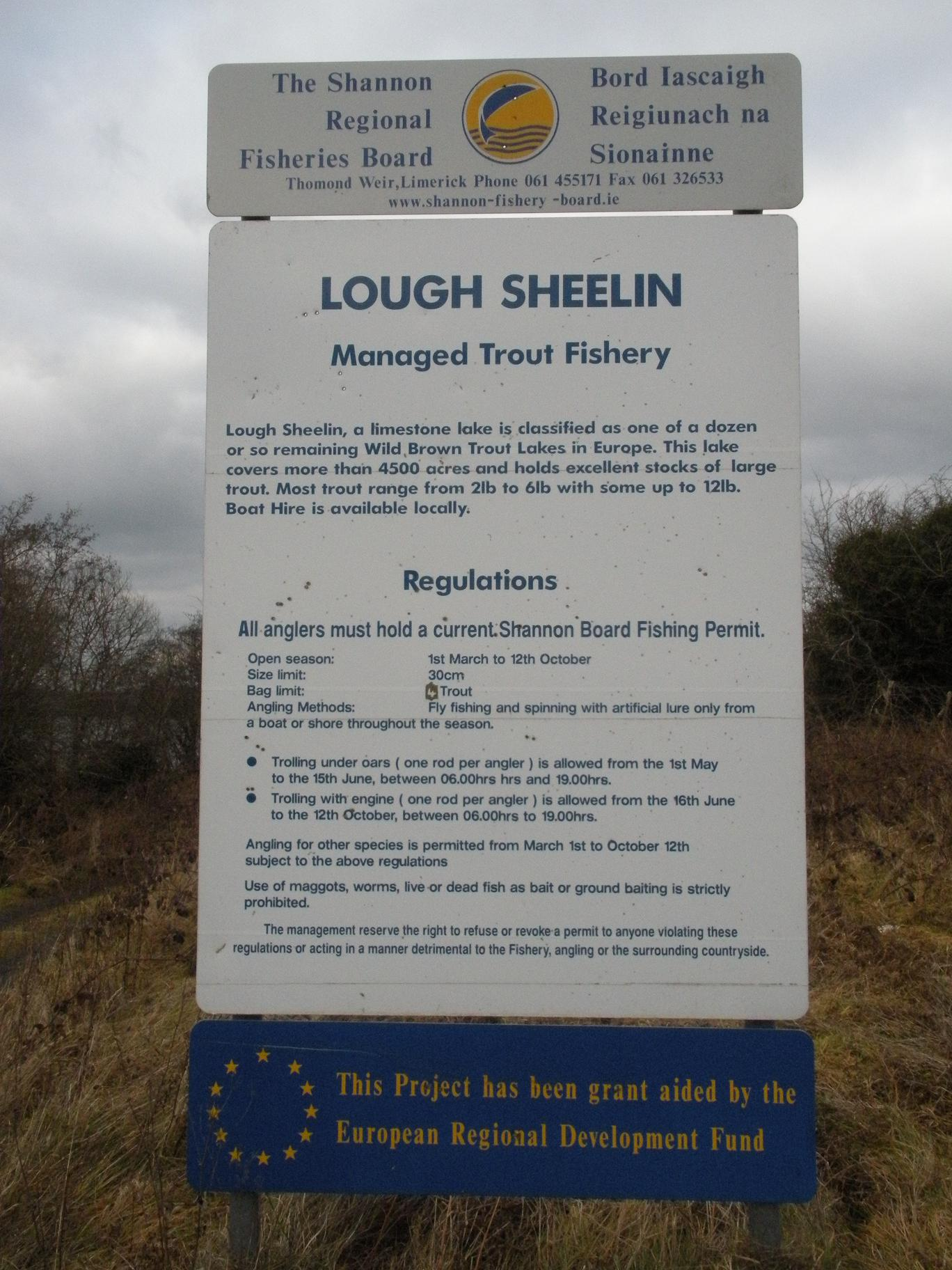 Lough Sheelin sign